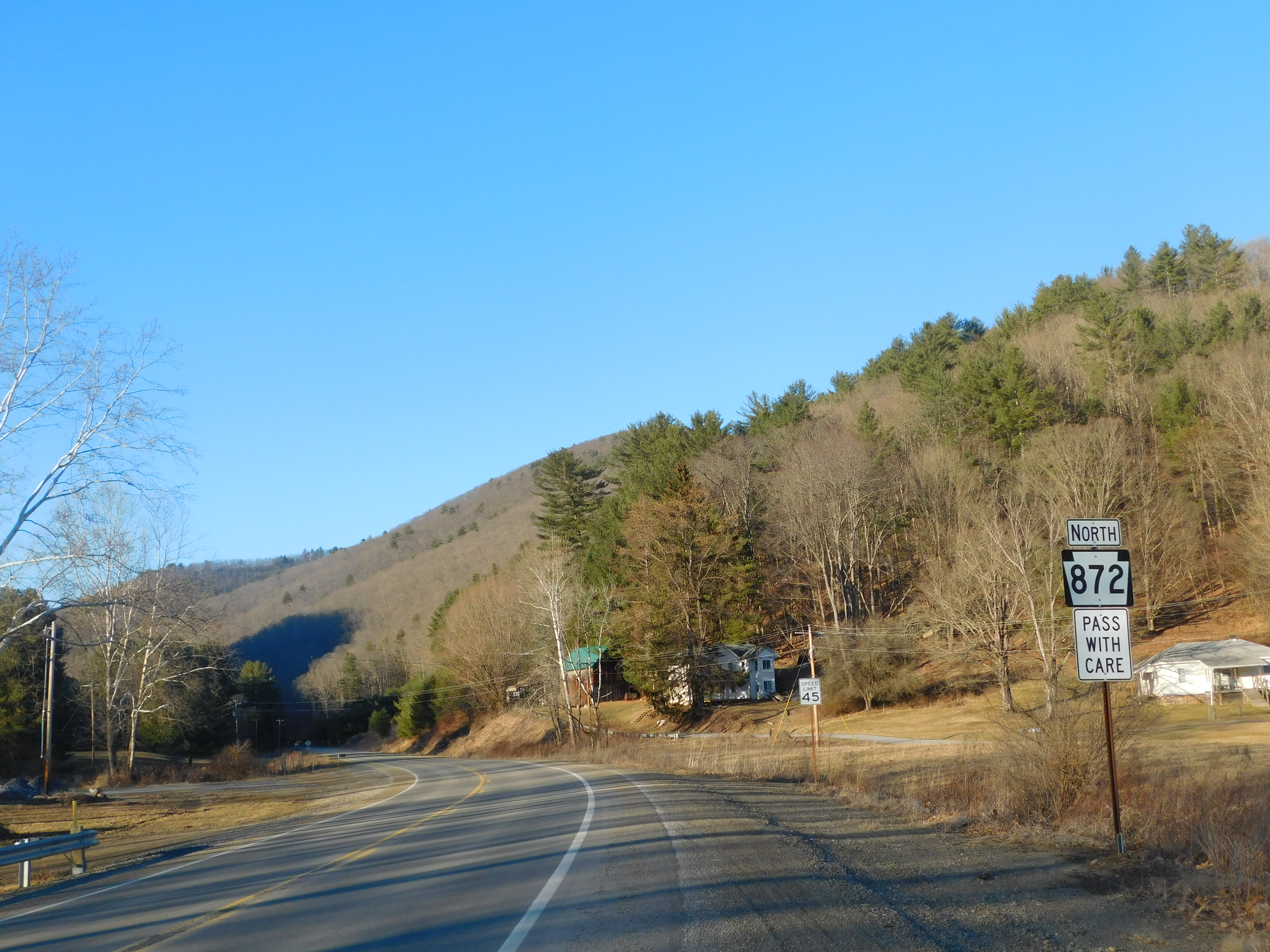 PA 872 northbound through Wharton, Pennsylvania.